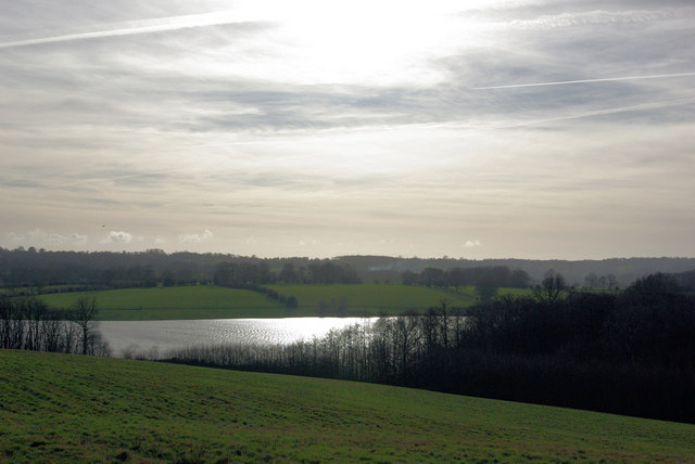 Winter Afternoon, Bewl Water From the fields below Chingley Manor.